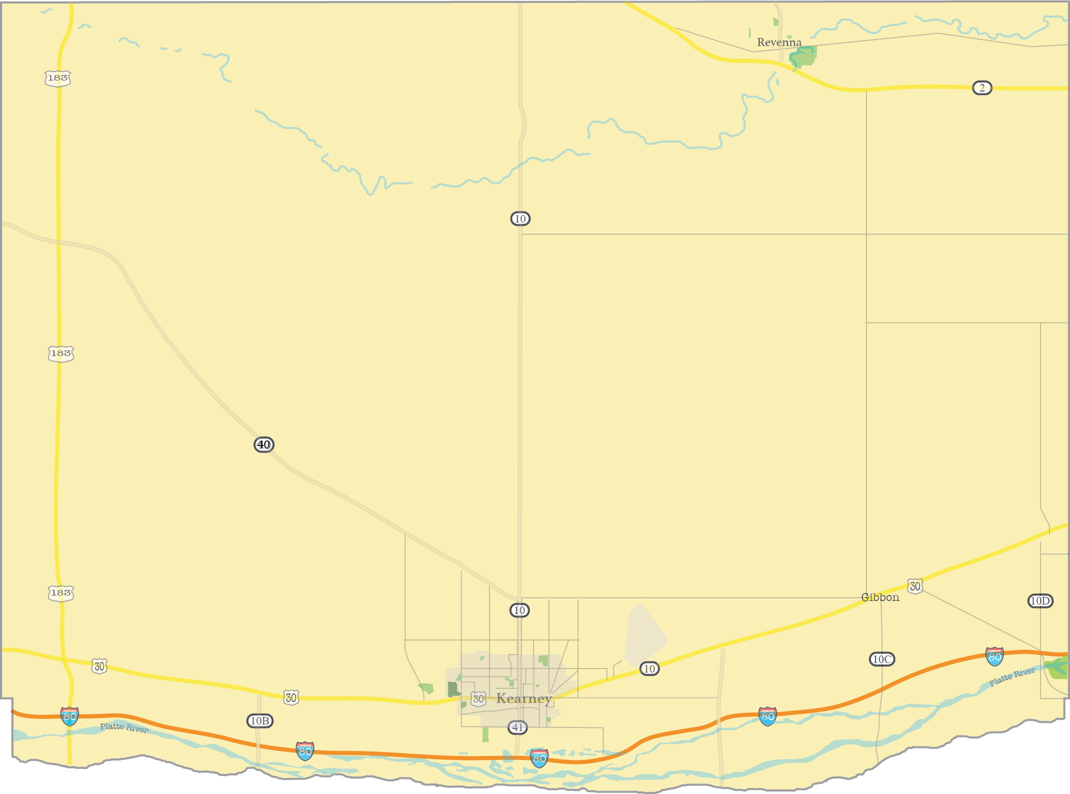 Rendition of Buffalo County based on google maps